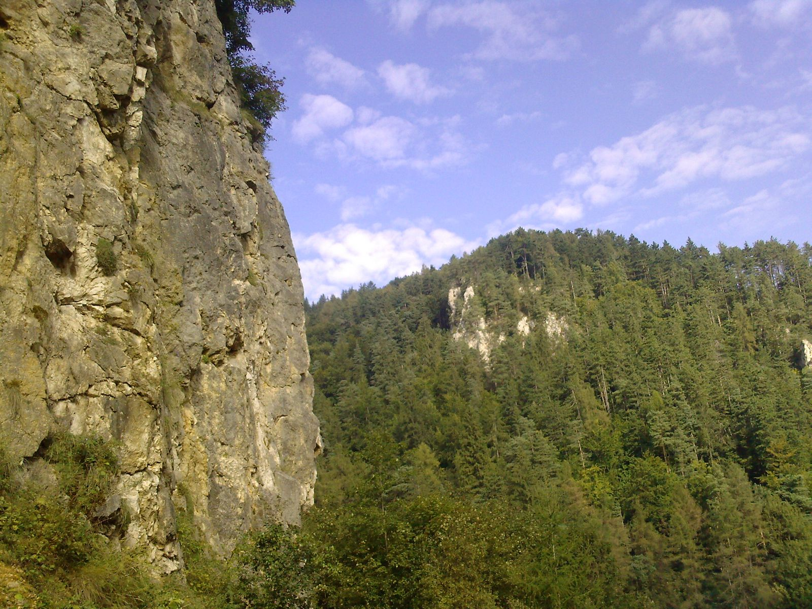 Solomon's stones, Braşov, Romania